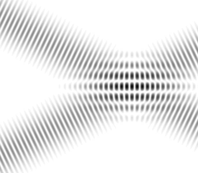 Simulation of the interferences between 2 plane waves (as if the time was stopped). Made by myself.